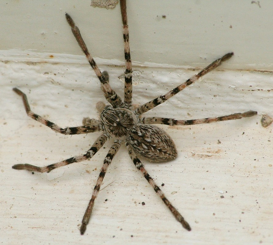 Eusparassus dufori